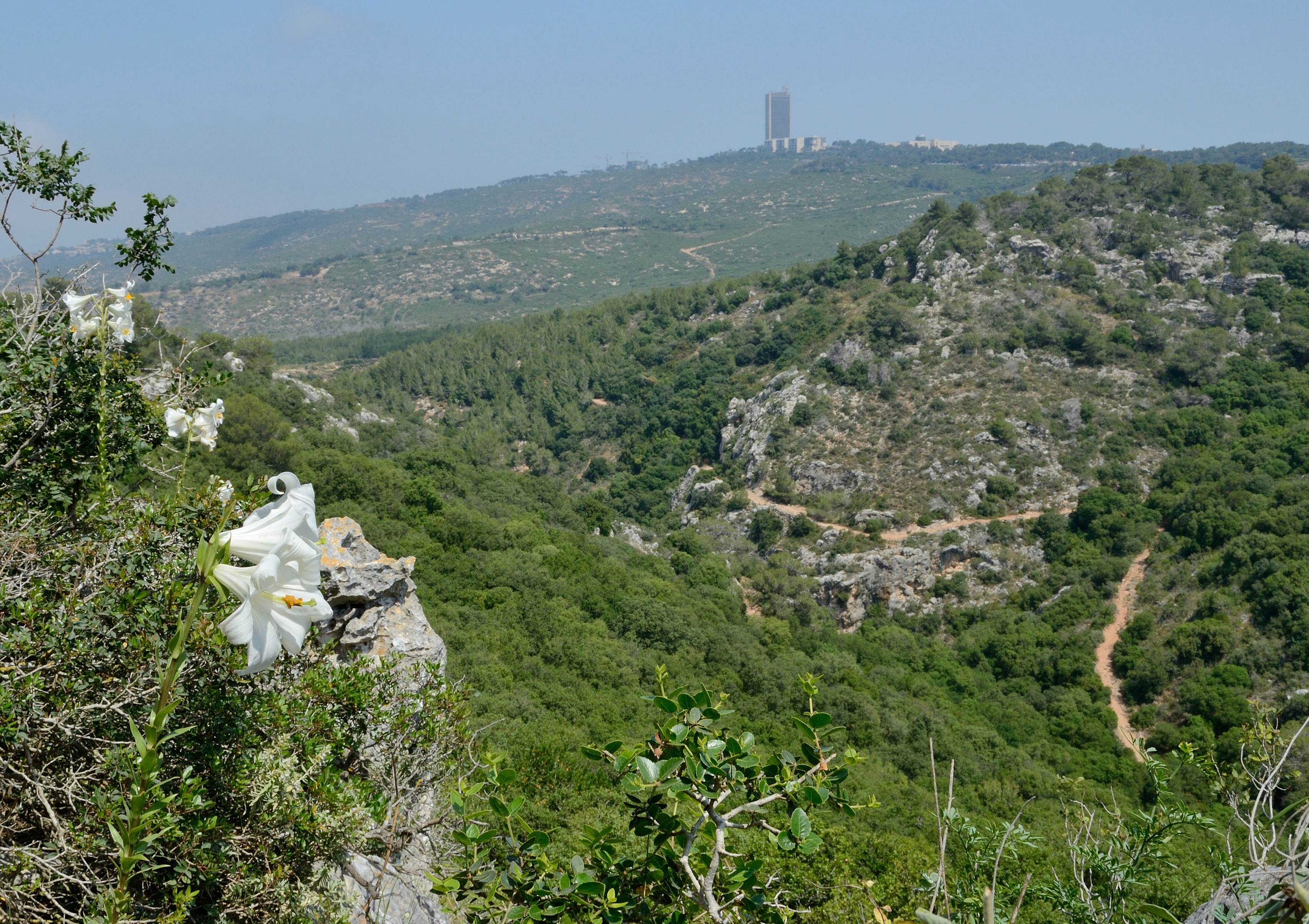 Northbound view of Wadi Kelah on Mount Carmel, Israel, May 7, 2013. Haifa University can be seen on the mountain ahead. On the left blooms the Madonna Lily (Lilium candidum L.) in its typical habitat of hard limestone cliffs. A mature maquis dominated by Quercus calliprinos grows in the Wadi. On the ridges grow Pinus halepensis trees. In the foreground appear, from left to right, Pistacia lentiscus, Phillyrea latifolia and Ruta chalepensis. On the far left appears Pistacia palaestina.